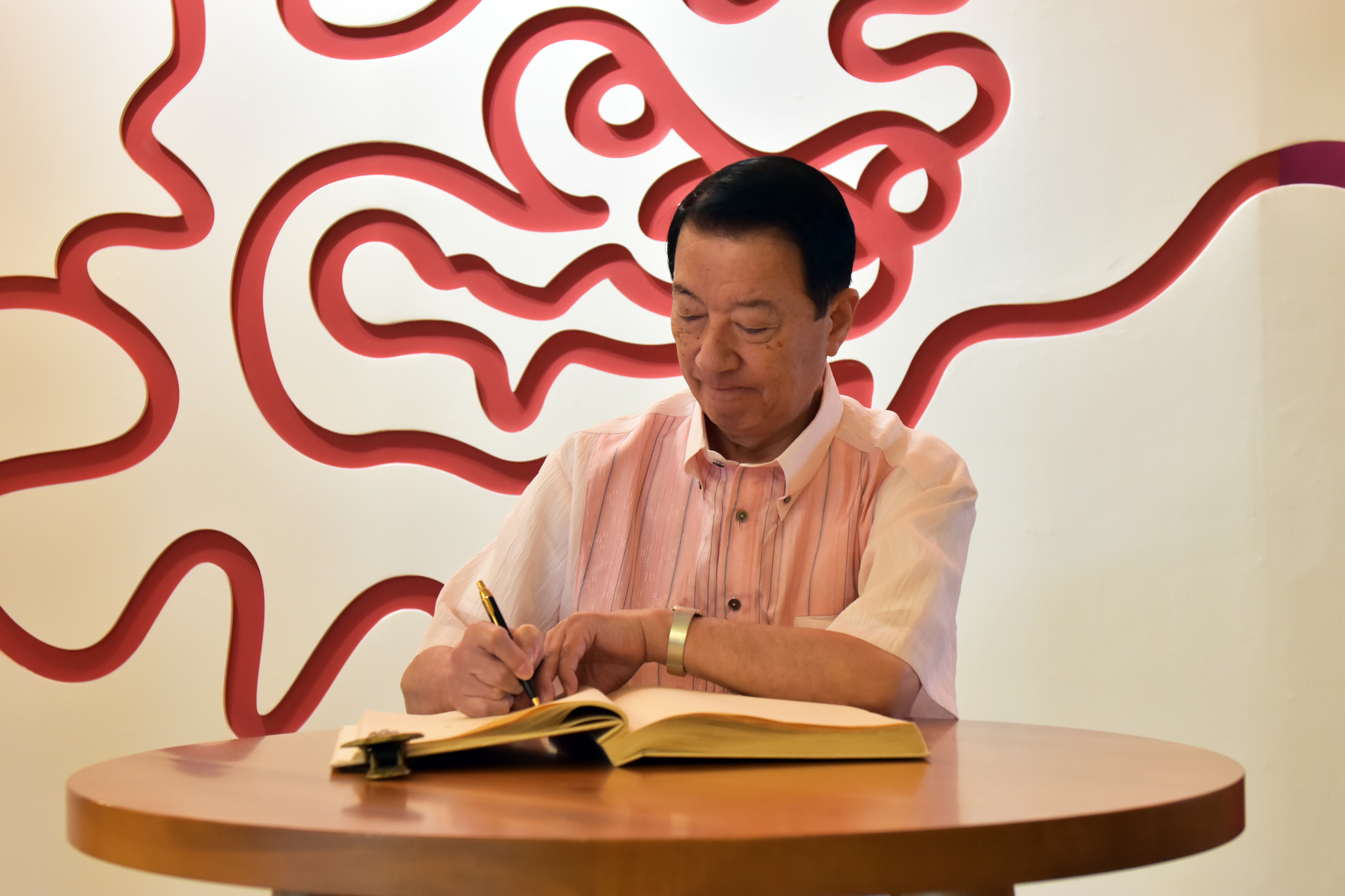 “New Minister of State for Okinawa and Northern Territories Affairs Tetsuma Esaki visited OIST, guided by President Peter Gruss and Vice-President Baughman before signing the Golden Book.” | 江崎鐵磨沖縄北方政策担当大臣来訪